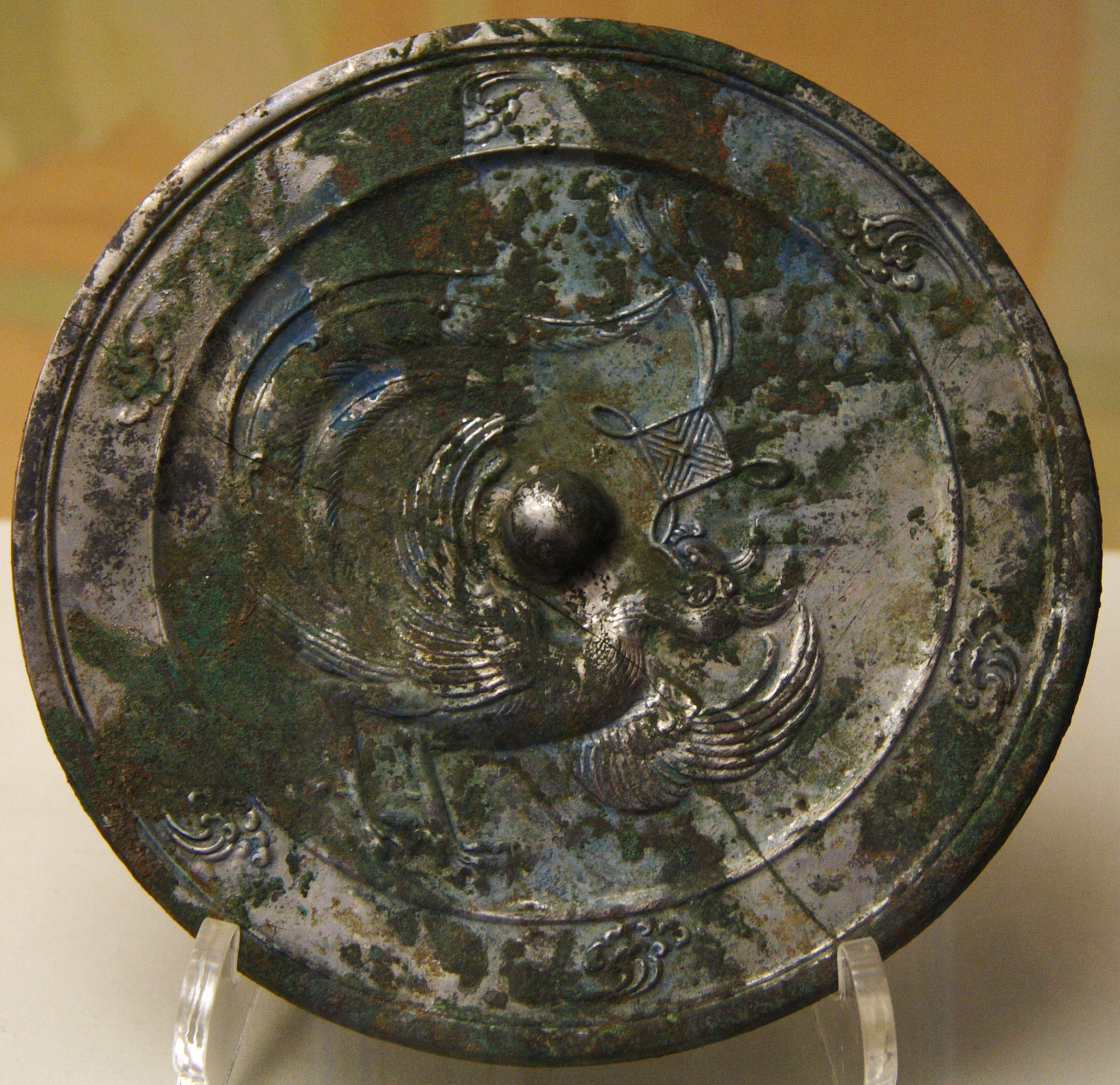 Chinese mirror, in the Forbidden City, Beijing (Shenmue 2)